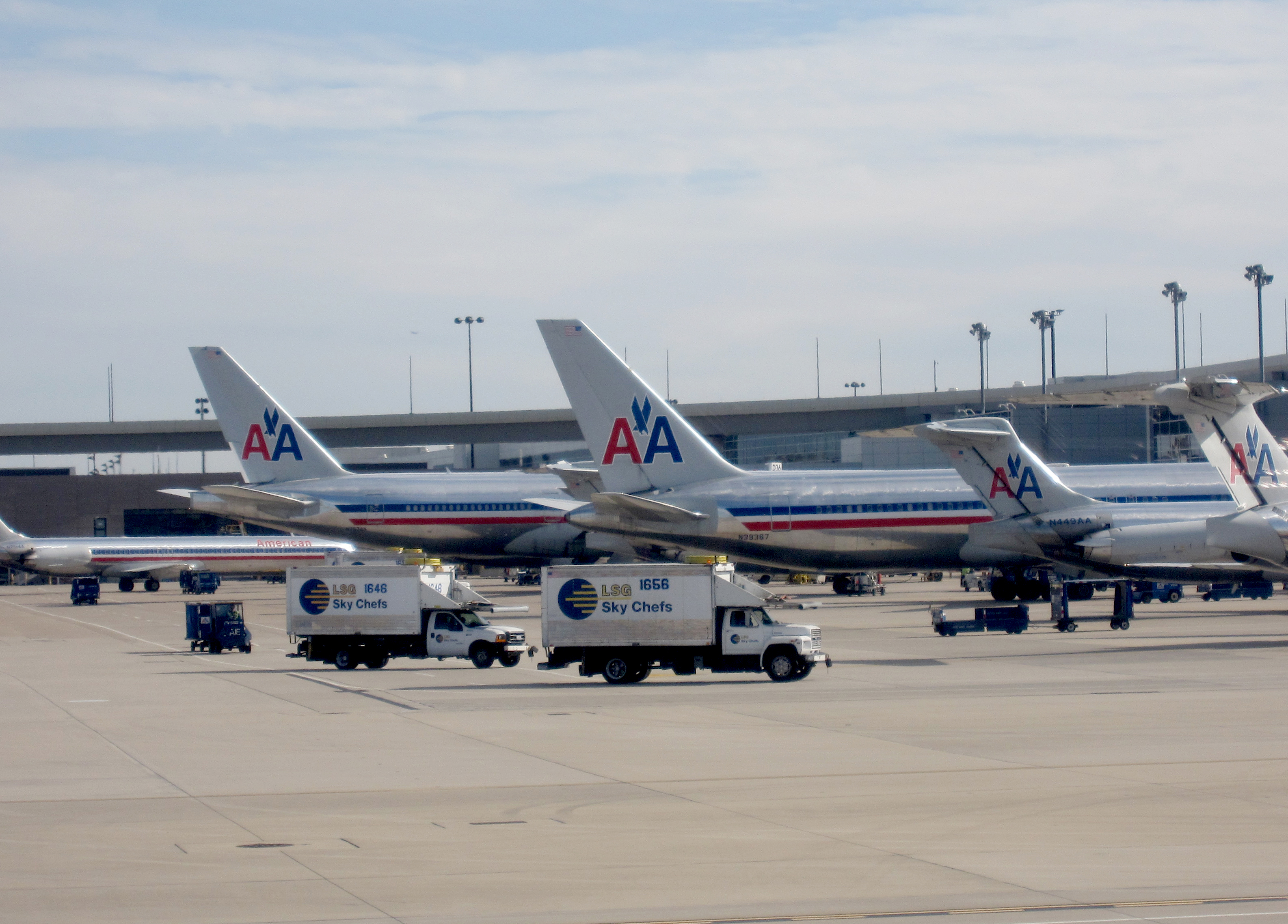 American Airlines fleet at Dallas/Fort Worth International Airport in November 2009.